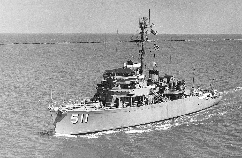 The U.S. Navy ocean minesweeper USS Affray (MSO-511) underway in 1960.